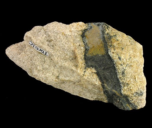 Törnebohmite-(Ce), Allanite-(Ce) Locality: Jamestown District, Boulder County, Colorado, USA (Locality at ) Size: 6.5 x 3.8 x 2.5 cm. This specimen was collected by Richard Kosnar on April 15, 1973 in the famous Jamestown District of Colorado which is northwest of Boulder. This pegmatite region has produced some very good specimens of a few species, such as Törnebohmite-(Ce). This specimen hosts a "vein" of grey color Törnebohmite-(Ce) which is wedged between dark (nearly black) bands of Allanite-(Ce) on K-Feldspar matrix. The specimen was reportedly analyzed by Hal Miller in 1974. Hal Miller was the co-author of the famous "Colorado Mineral Belt" article in the November/December 1976 Issue of the Mineralogical Record. A great association specimen combining a pair of rare-earth species from this classic Colorado locality. Ex. Richard Kosnar Collection.